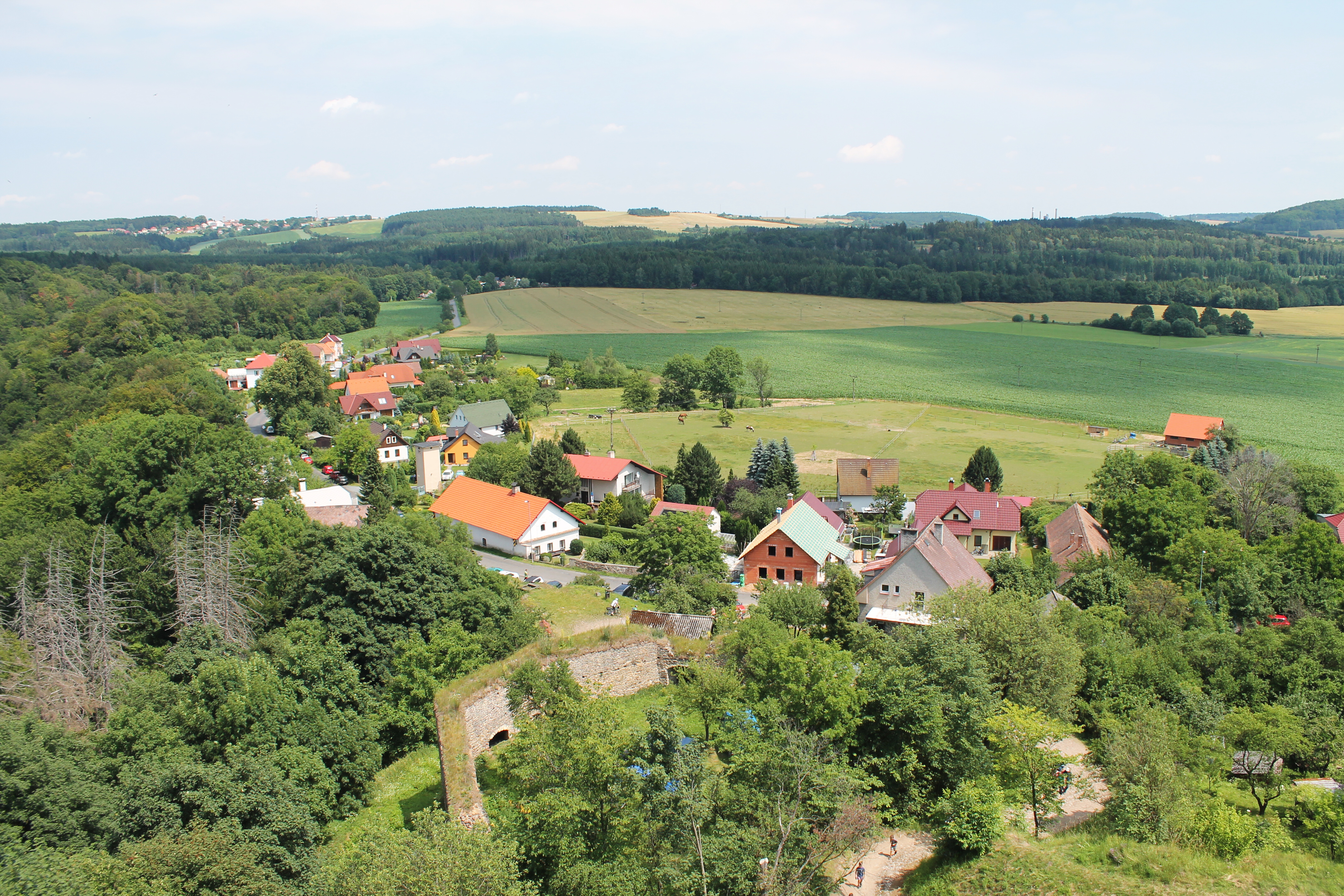 Podhradí, Třemošnice, Chrudim District, Czech Republic